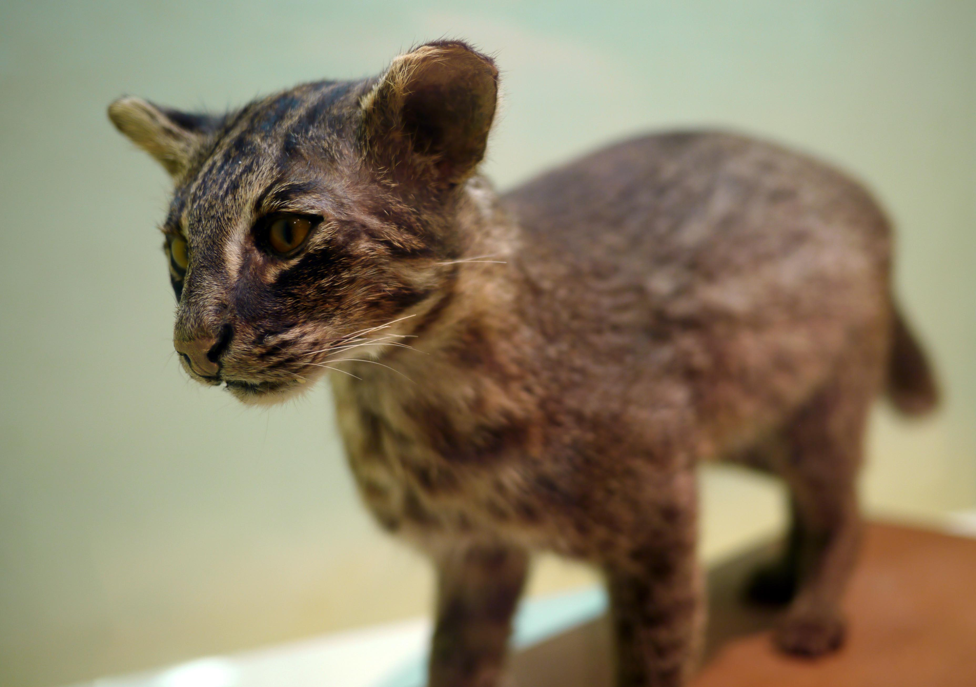 A stuffed Iriomote cat at the Iriomote Wildlife Conservation Center